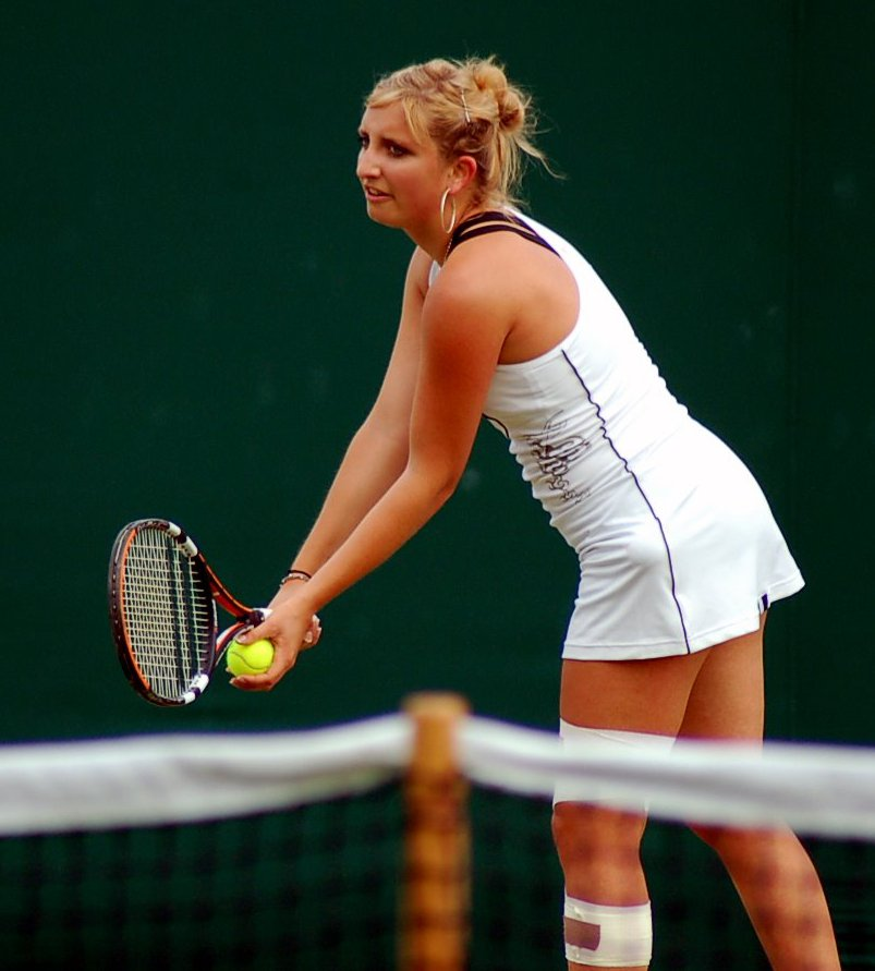 Timea Bacsinszky vs. Julie Ditty at Wimbledon 2008.